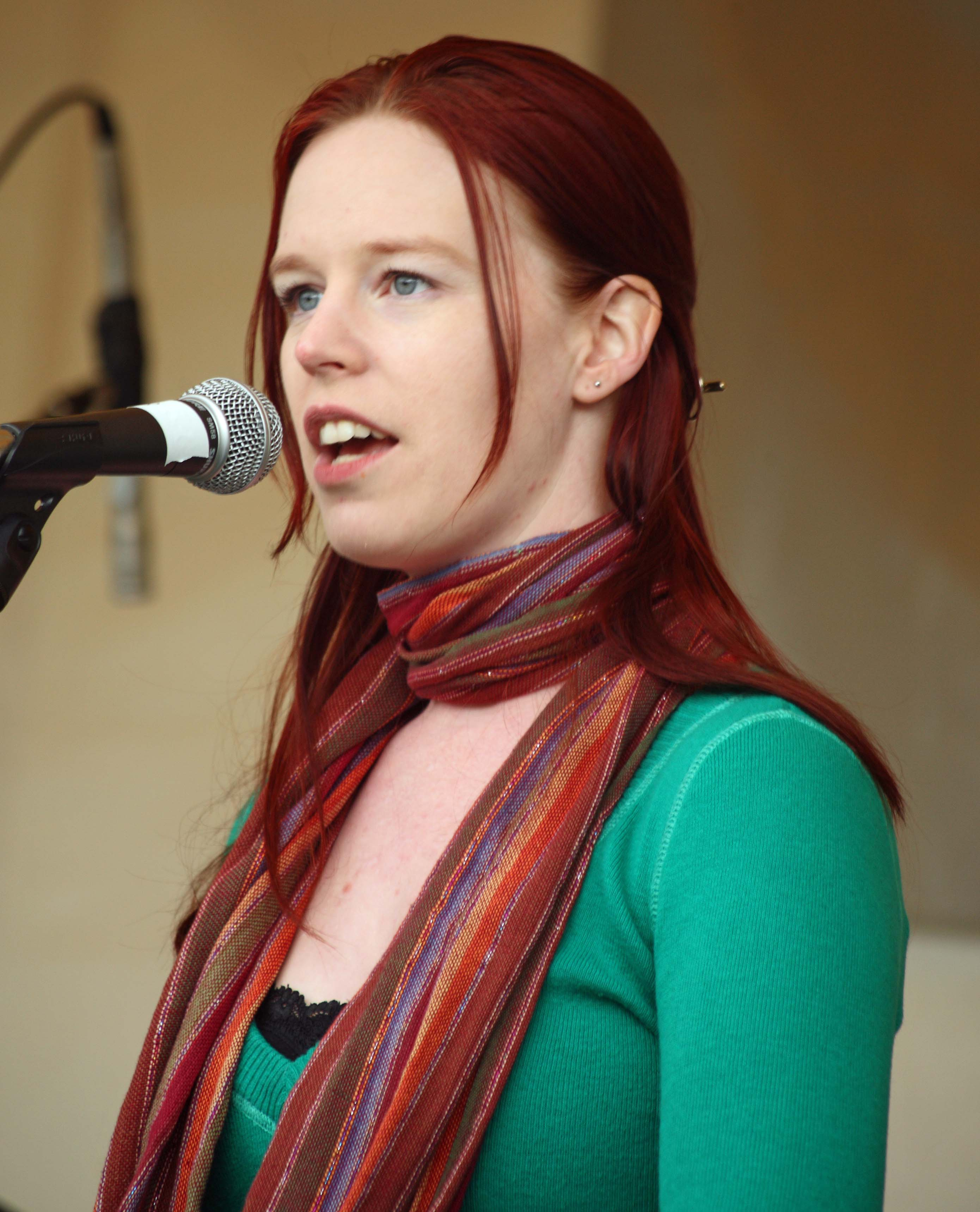 Marian Call. KSKA is Anchorage's fantastic National Public Radio stations - one of the best in the country and we couldn't do without it. Each year they have a picnic to thank their members. This year it was on a dreary Saturday in June 2011. Good local performers put on a nice show and the people watching was quite interesting.